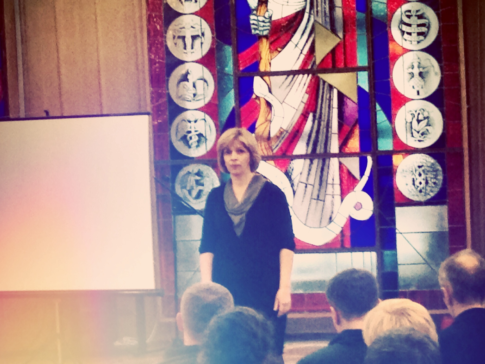 Olga Bogomolets in the National Museum of Medicine of Ukraine